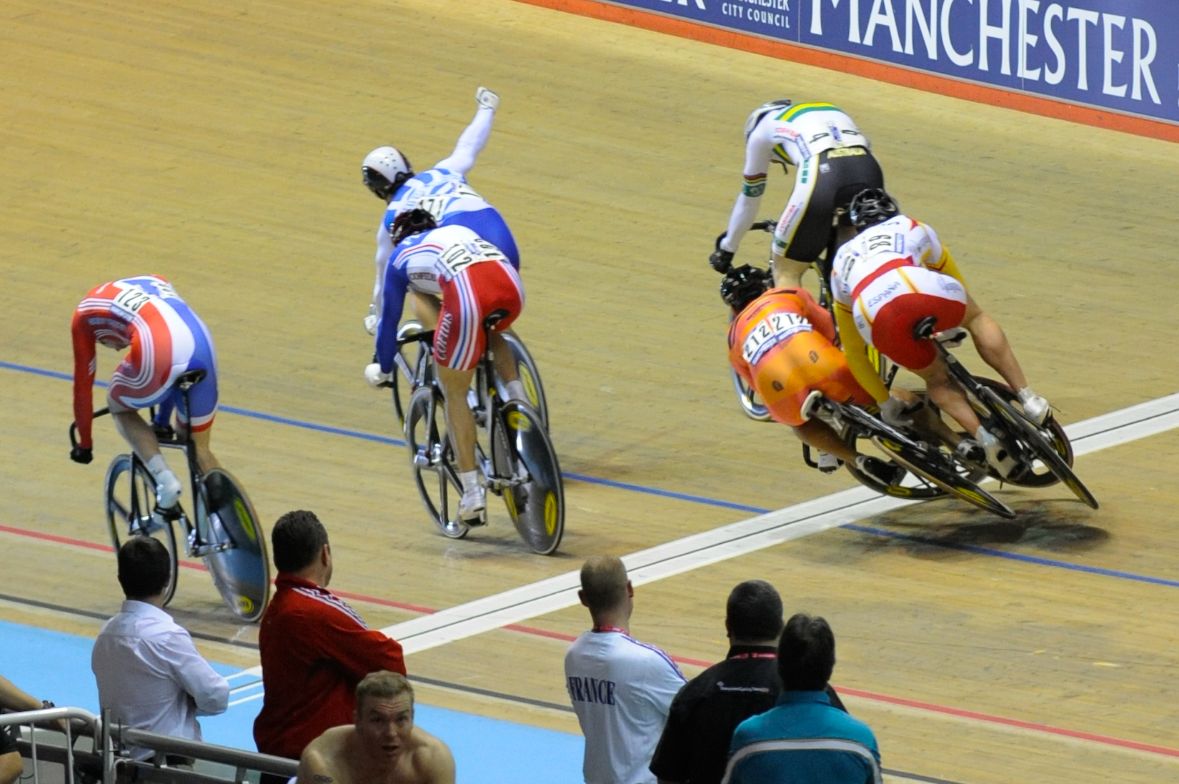 A crash during the 2008 UCI World Track Cycling Championships. A report of the cause of the crash and the penalty for it is under the heading "First round: High drama in the Pace-Race" at Cycling News. Video of the crash can be found by pasting the victims' names into the YouTube searchbox.